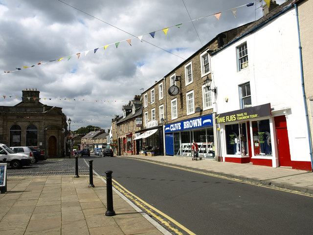 Main Street, Haltwhistle Viewed from the market square.